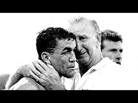 Lewis with Jeff Fenech after his defeat to Azumah Nelson in 1992